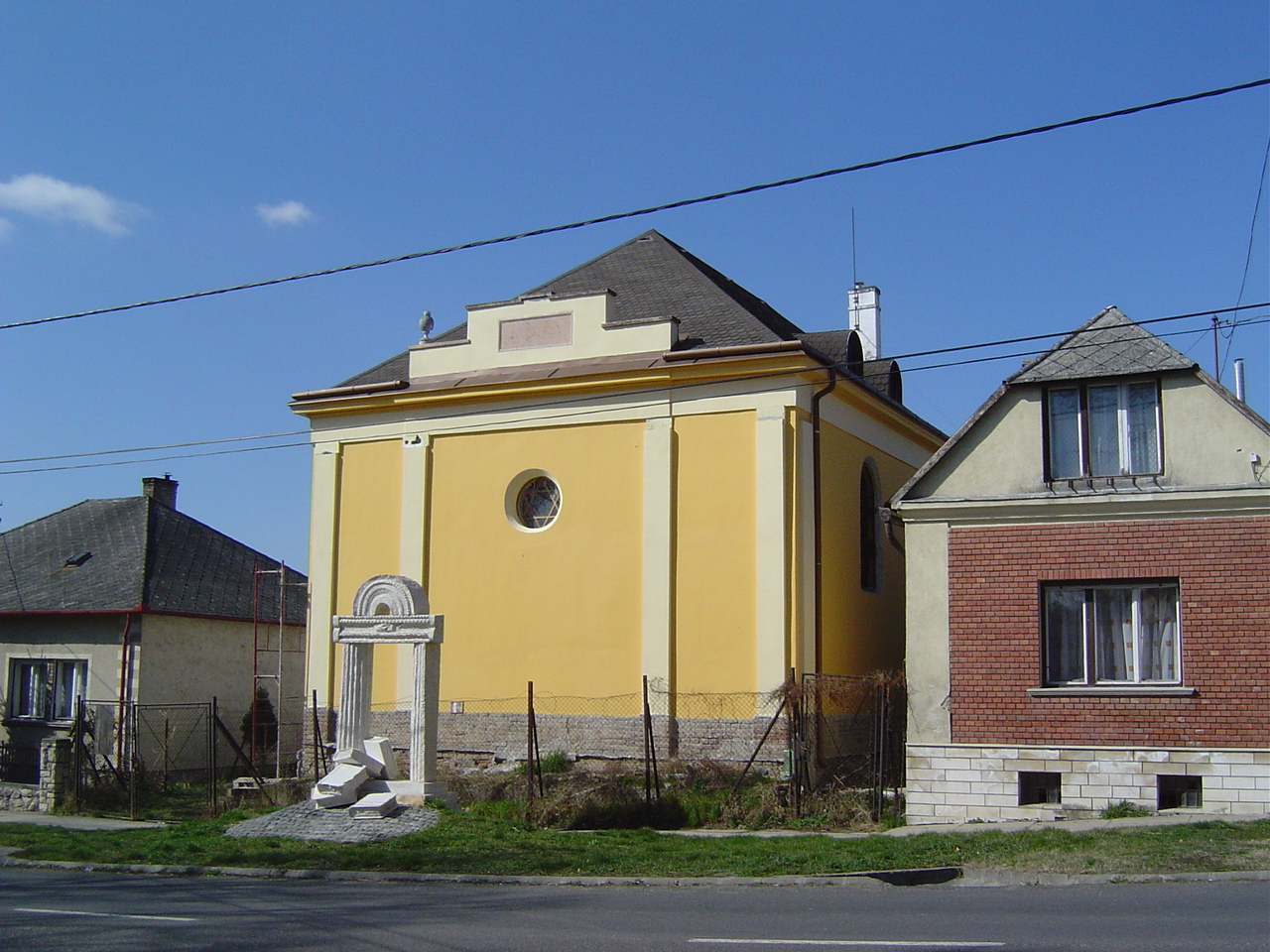 View of former synagogue on main street, Pannonhalma, Western Hungary